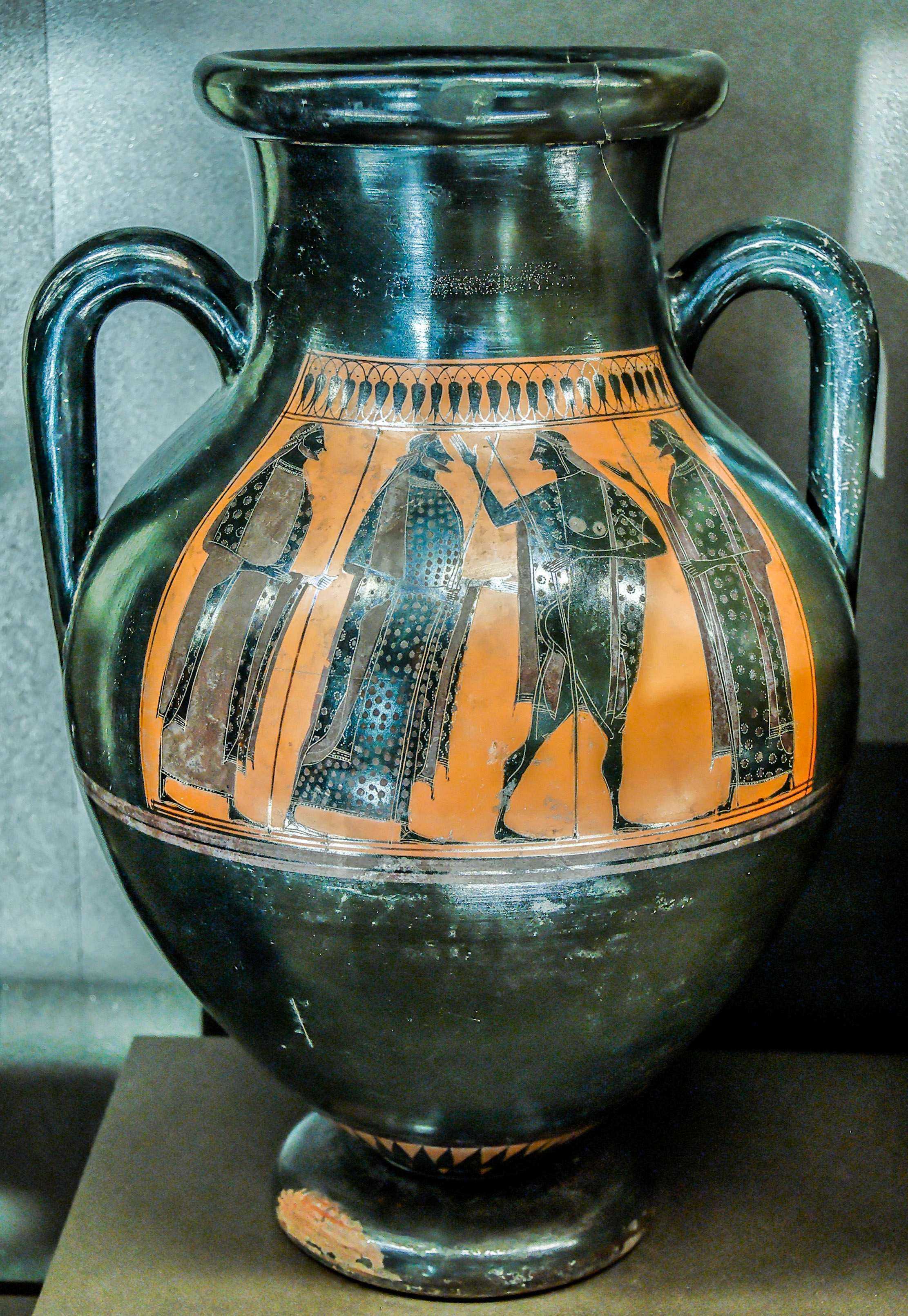 Warrior's departure. Side A from an black-figure Attic neck-amphora, ca. 540–530 BC.